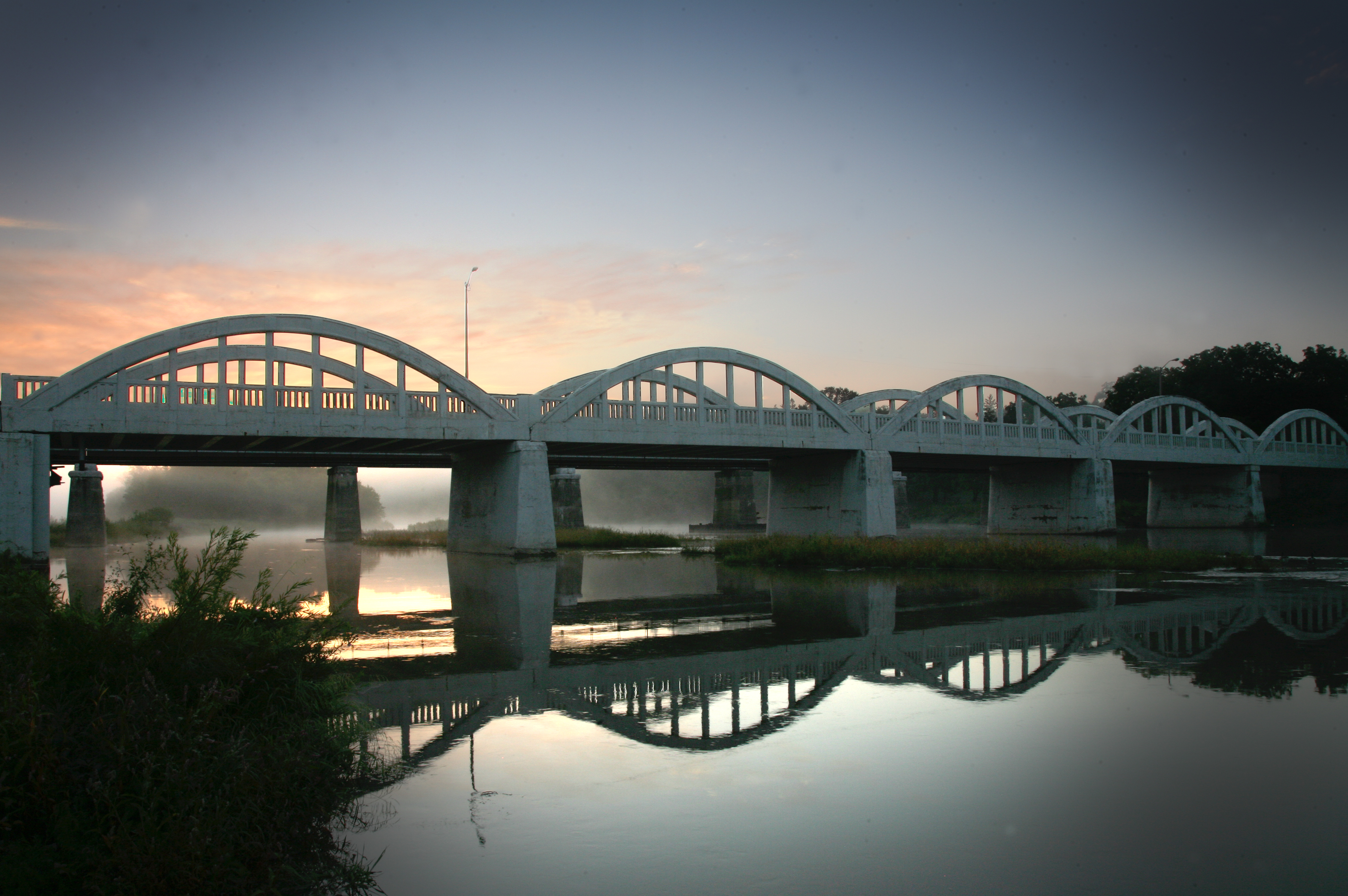 Freeport Bridge crossing the Grand River, Kitchener built between 1925-1926